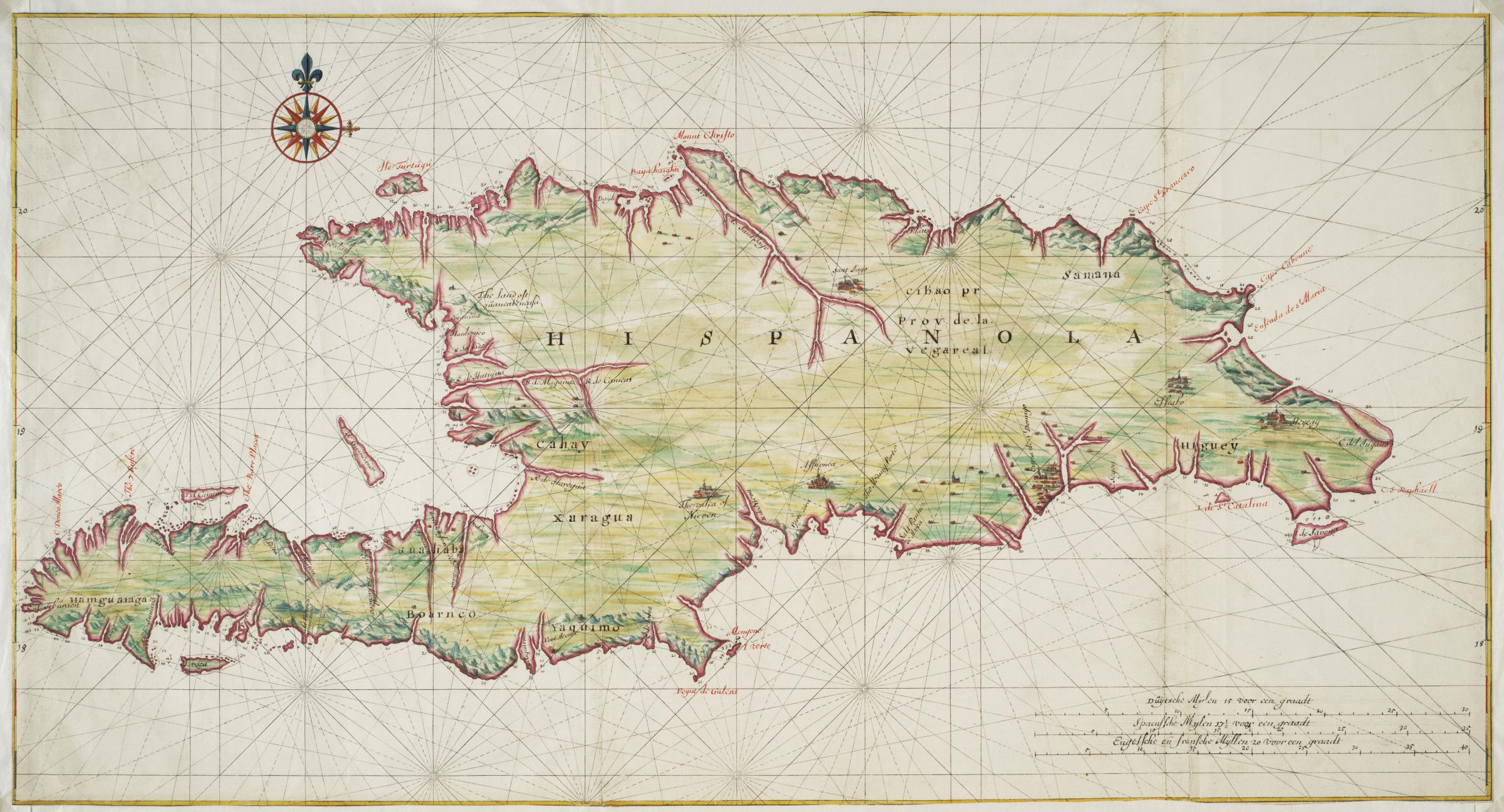 Title in the Leupe catalogue (NA): Kaart van de kusten van St. Domingo en omliggende eilanden. Met loodingen. Map of the island of Hispaniola. Remarks: the map forms part of the Vingboons Atlas.